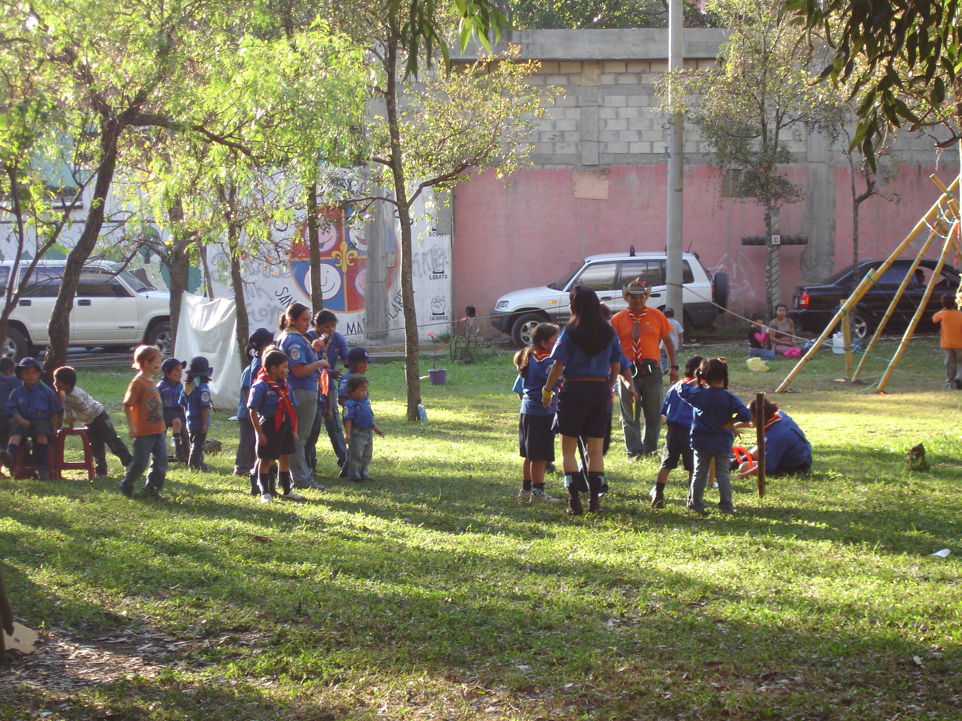 Iglesia Claret, San cristobal, tropa de boy scout